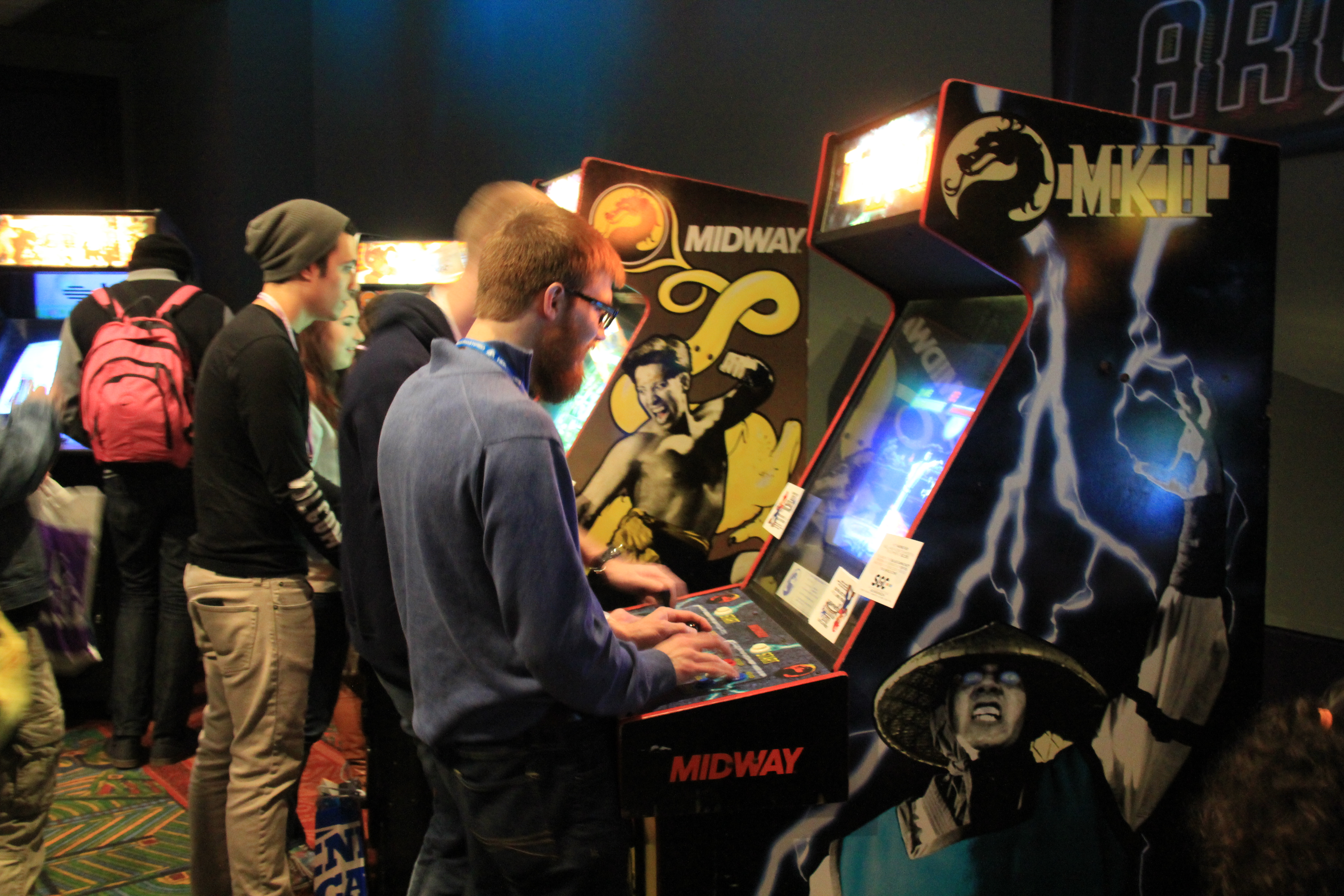 IMG_3557 Taken on day 1 of PAX South 2015.